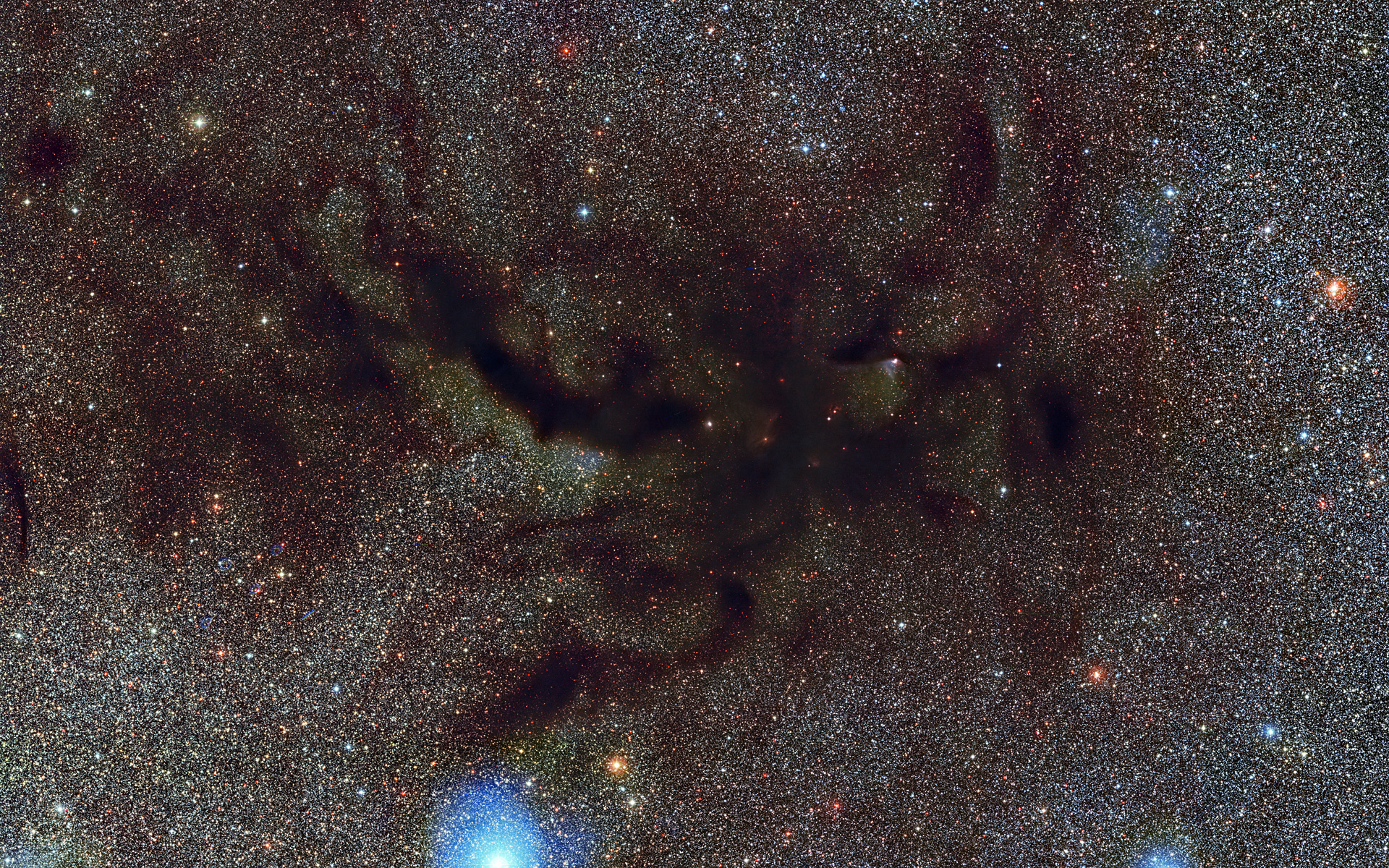 This picture shows Barnard 59, part of a vast dark cloud of interstellar dust called the Pipe Nebula. This new and very detailed image of what is known as a dark nebula was captured by the Wide Field Imager on the MPG/ESO 2.2-metre telescope at ESO’s La Silla Observatory. This image is so large that it is strongly recommended to use the zoomable version to appreciate it fully.